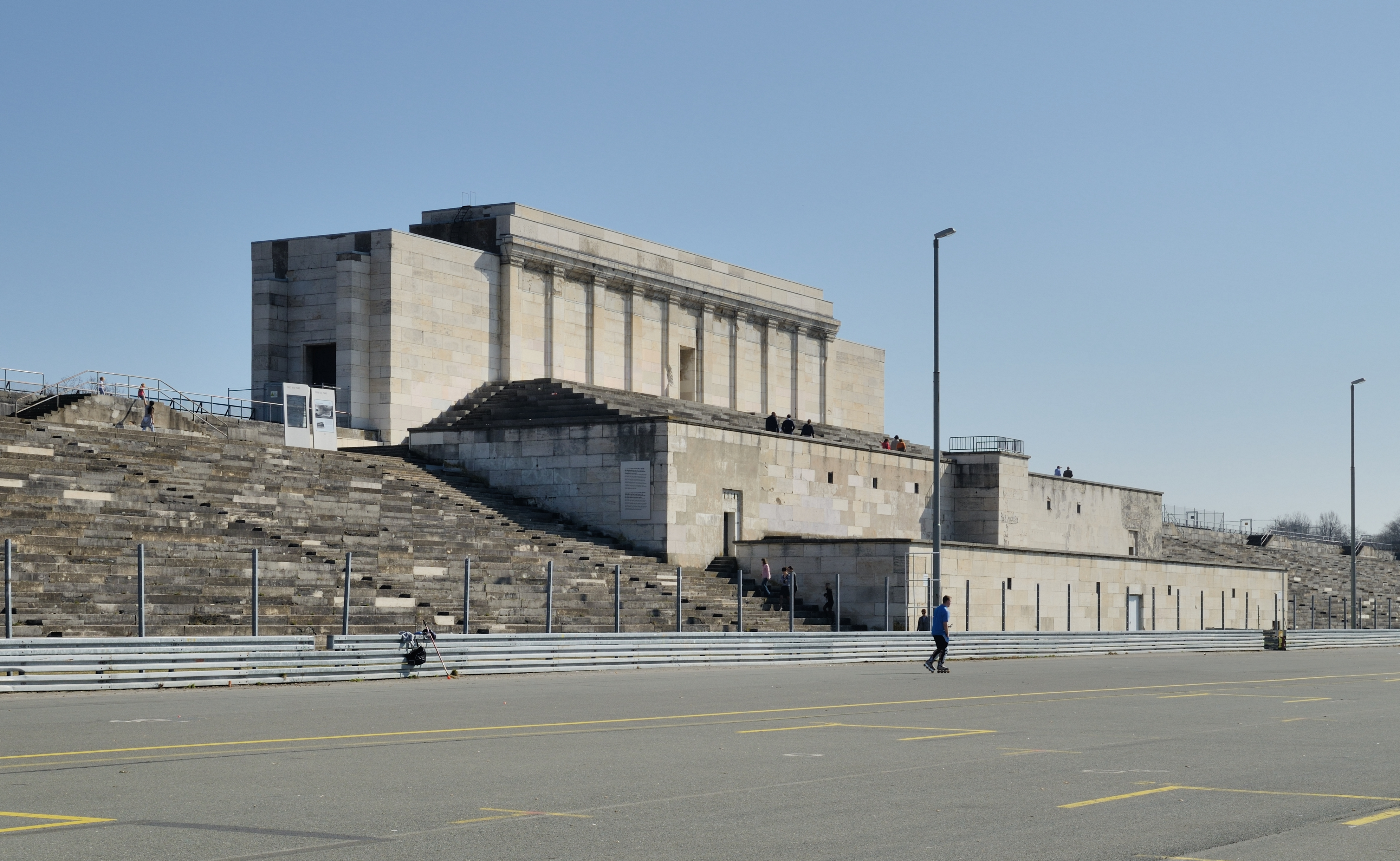 Nuremberg: Stand of Zeppelin Field